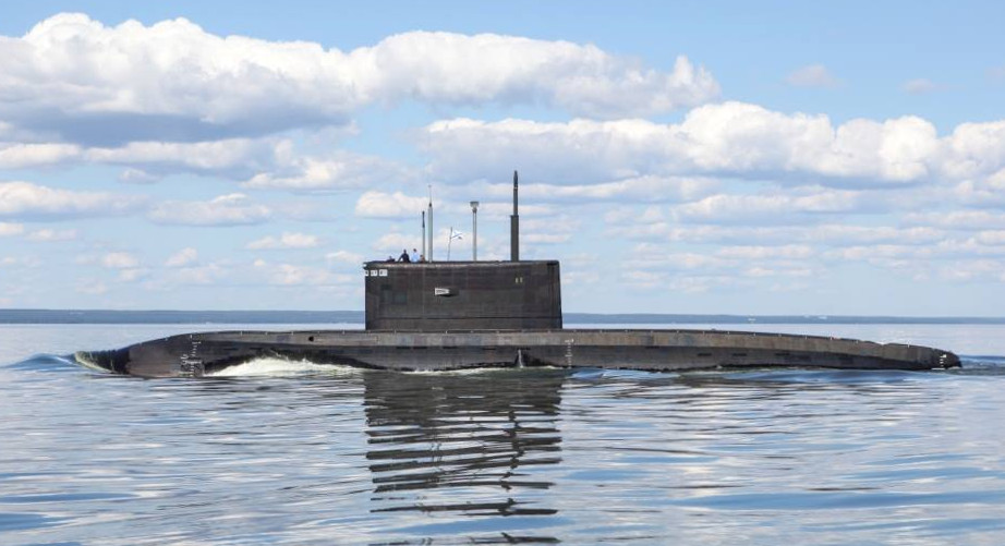 Krasnodar.